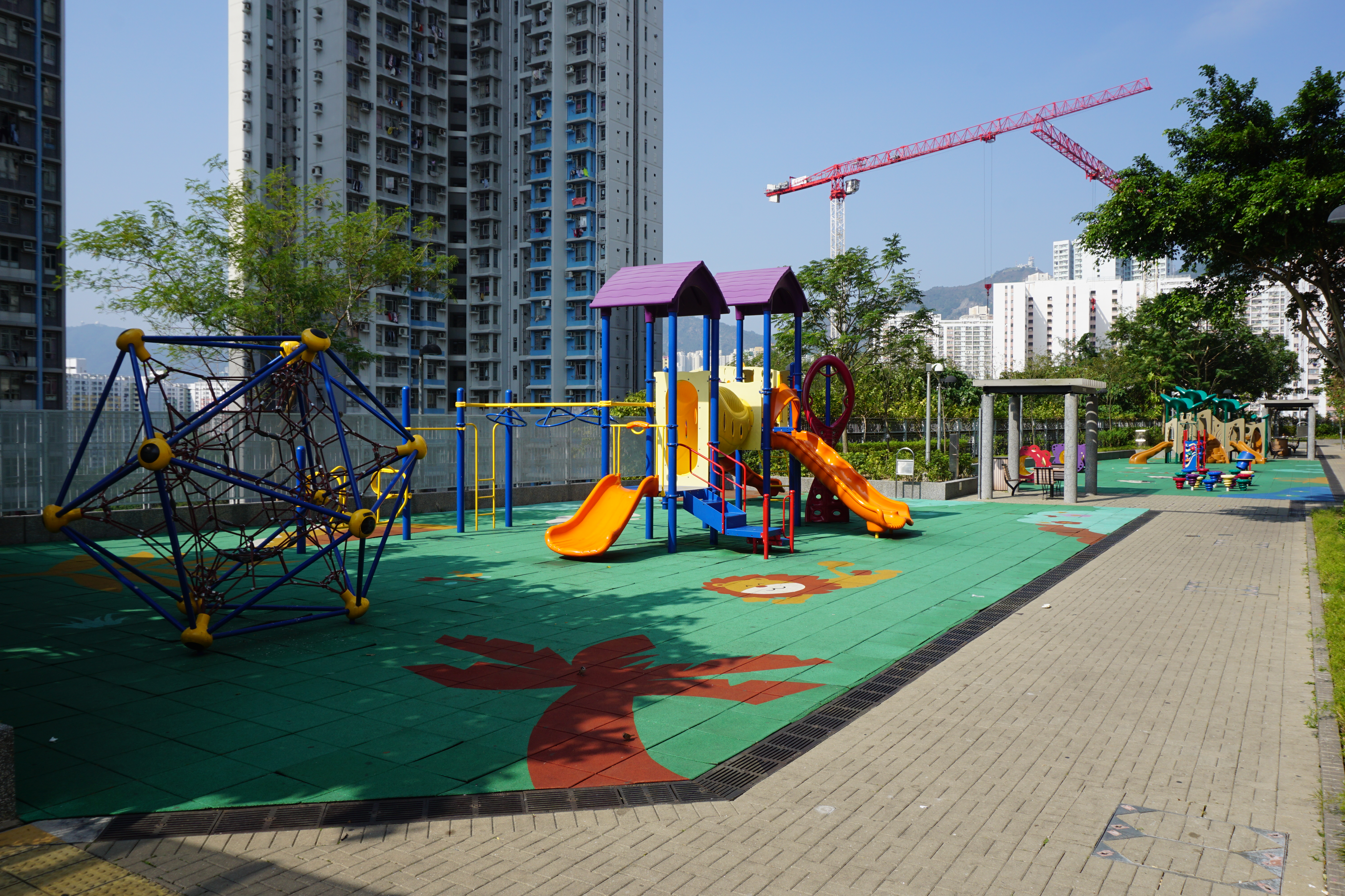 Choi Tak Estate in Kowloon Bay, Hong Kong.